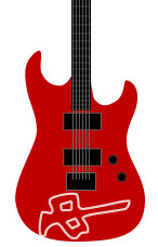 picture of body of Jason Ellis Showmaster signature guitar